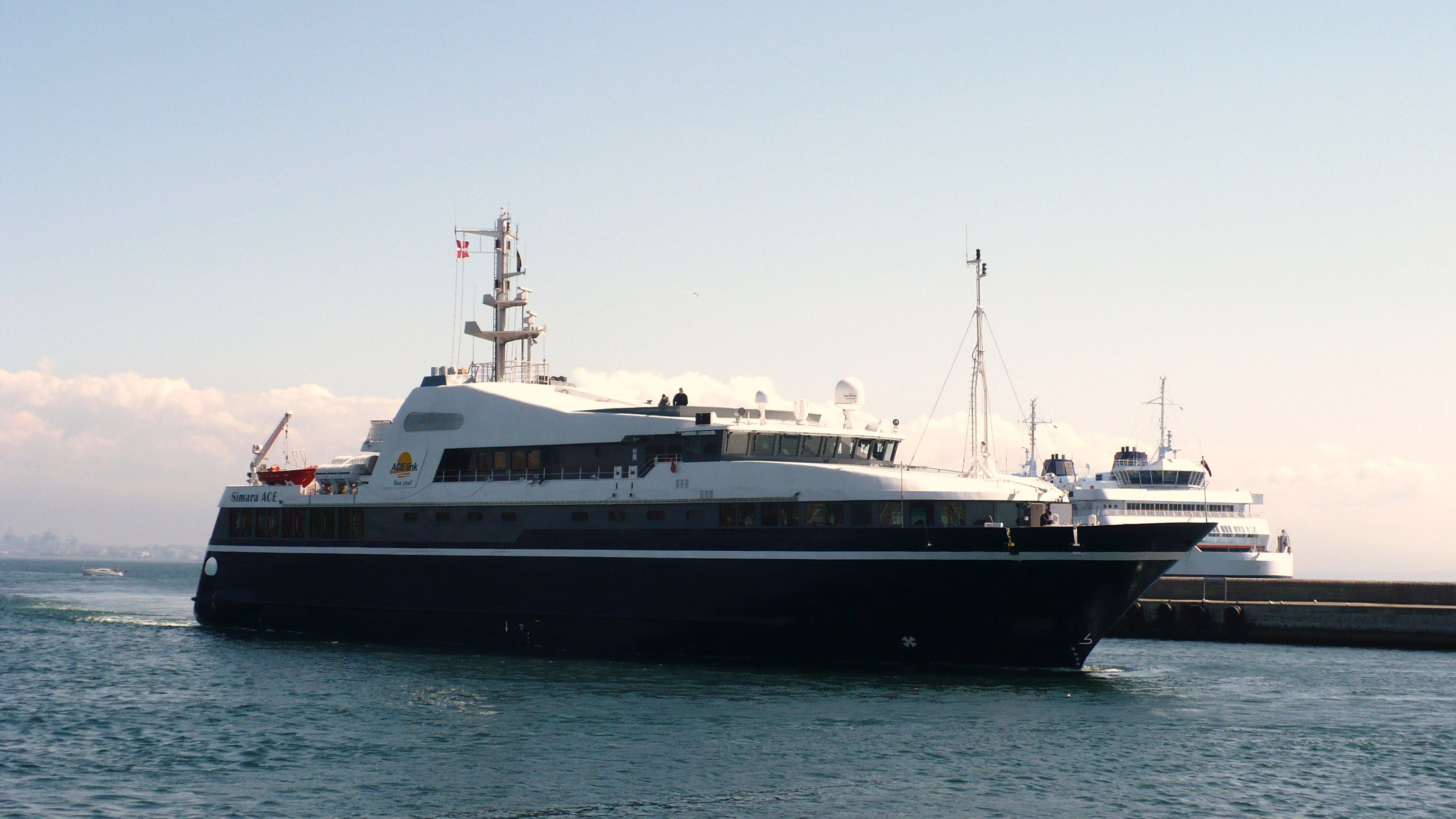 Ship arriving at Elsinore dock